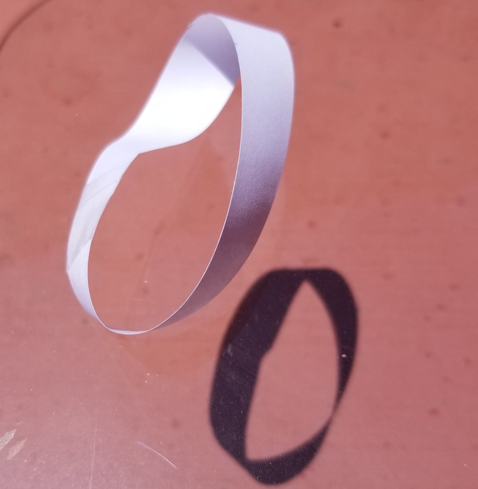 A Möbius strip with its shadow. The Möbius strip does not self-intersect but its projection in 2 dimensions does.